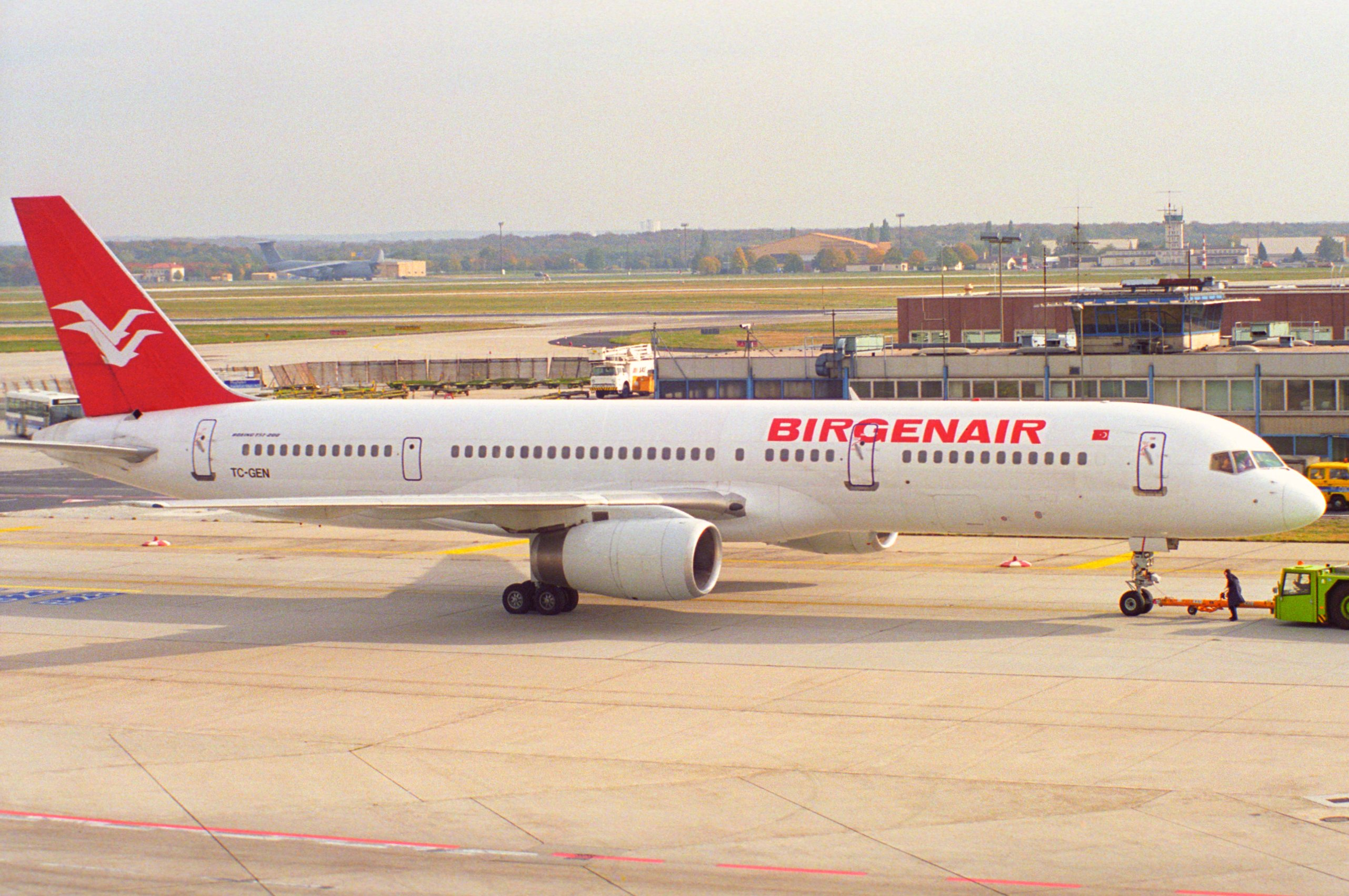 This is the ill-fated Boeing 757 that crashed after take off from Puerto Plata, Dominican Republic, on February 6, 1996... The Boeing 757 took its first flight on February 3, 1984... 26/02/1985 Eastern Airlines N516EA 20/05/1992 Nationair C-FNXN 01/05/1993 Aeronautics Leasing N7079S 14/07/1993 Birgenair TC-GEN 19/12/1994 International Caribbean Airways 8P-GUL 31/03/1995 Birgenair TC-GEN